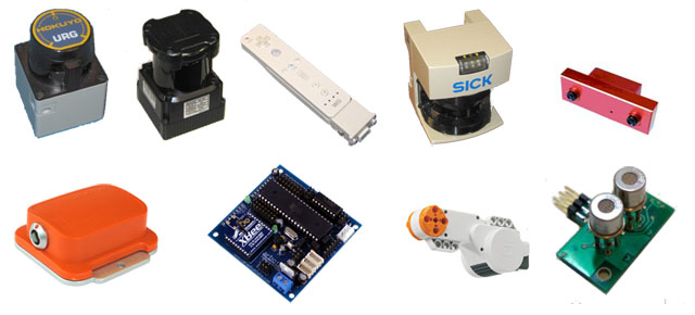 Types of light and sound sensors used in Robots to detect presence of light and sound